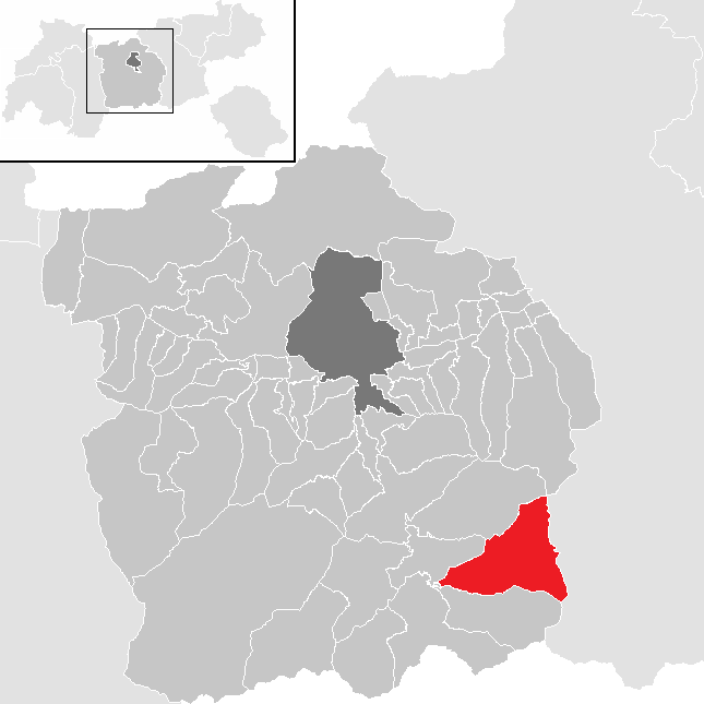 District Innsbruck Land